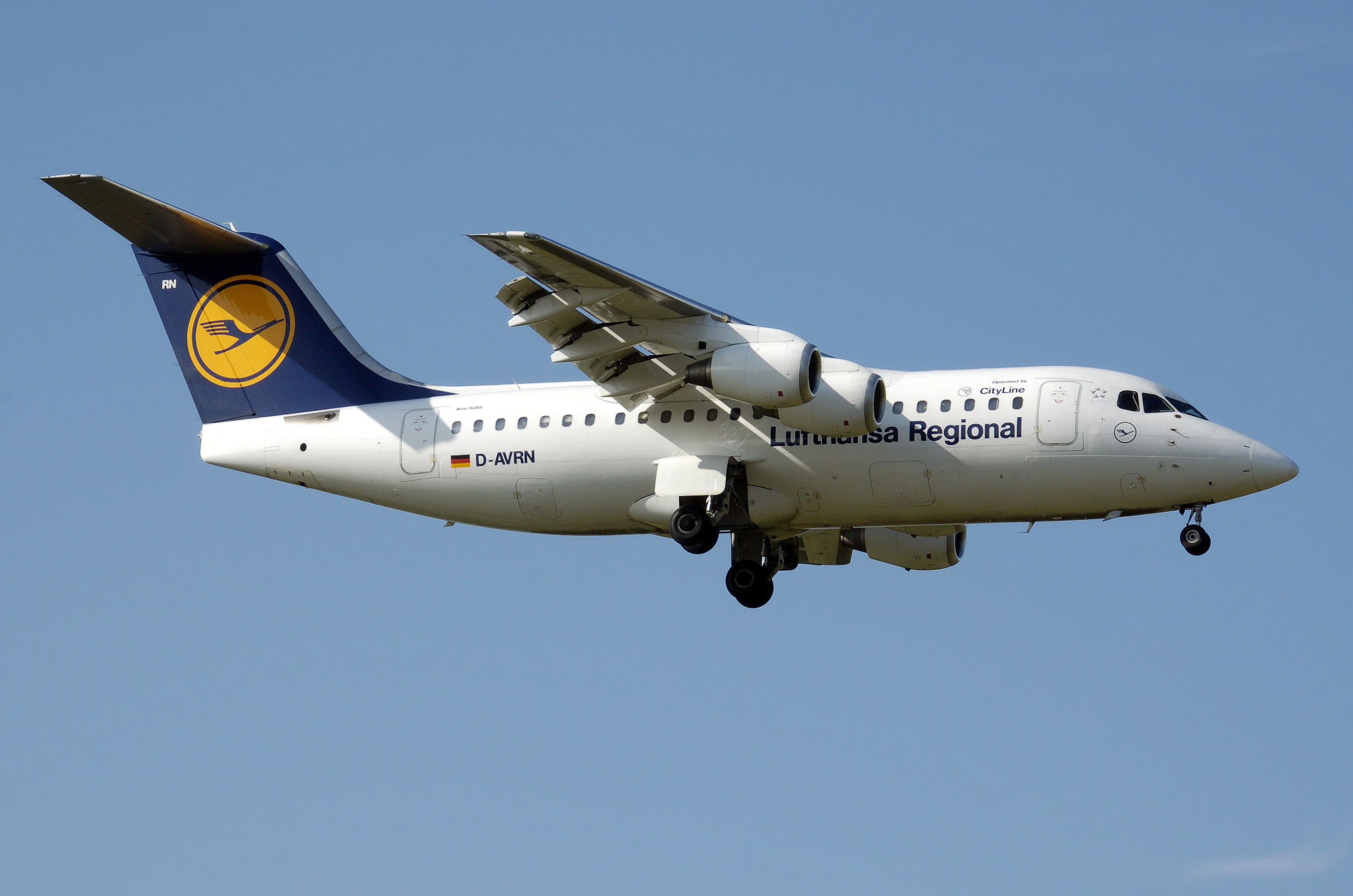 Lufthansa Regional (CityLine) Avro RJ85 (D-AVRN) lands at Birmingham International Airport, England.